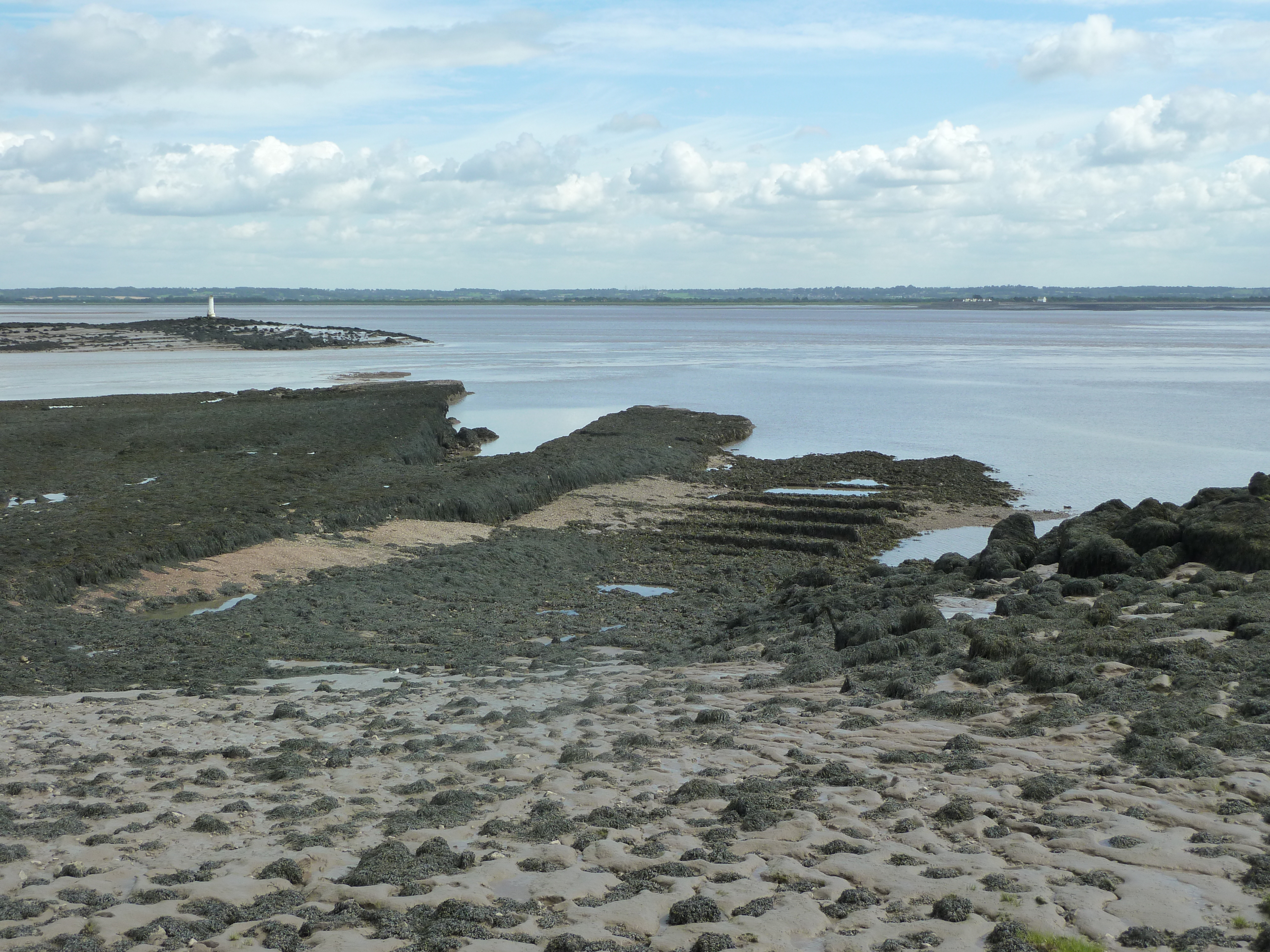 Remains of the pier foundations at Portskewett